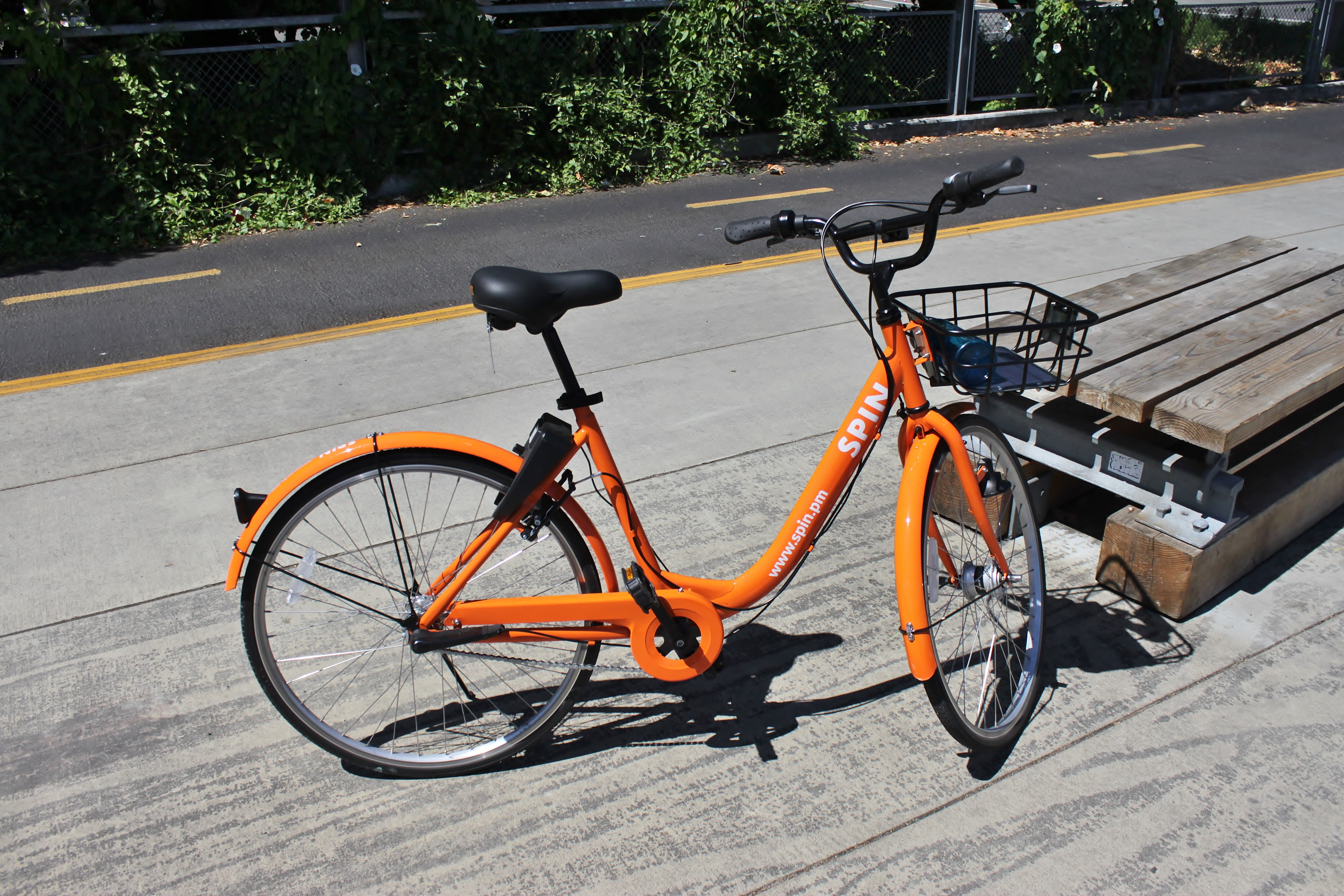 A Spin dockless bicycle-sharing bike, seen in Seattle in July 2017.